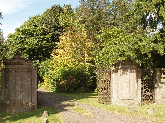 Gates at East Lodge, Balruddery Balruddery Burn runs down just by this driveway.